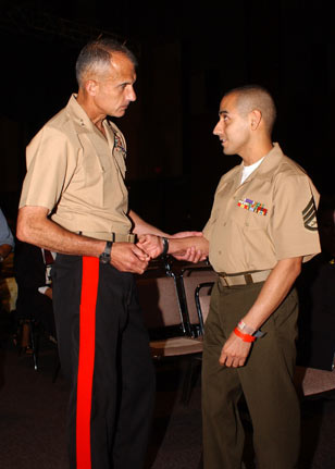 Major General Christopher Cortez (left), Commanding General, Marine Corps Recruiting Command, honors Staff Sergeant Eric Alva, the 2003 recipient of the Heroes and Heritage Award.